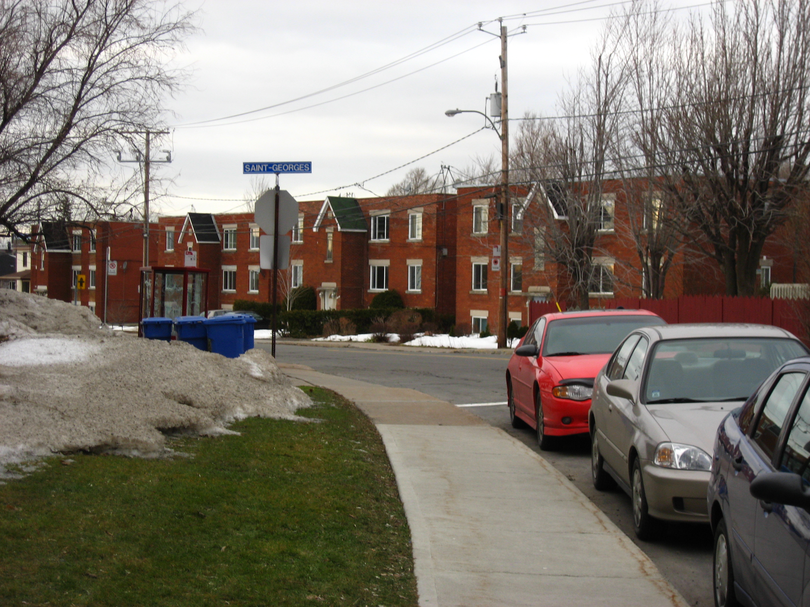 Row of low-rise apartments